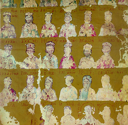 The Mokvi Four Gospels 1300 Genealogy of Christ (part)